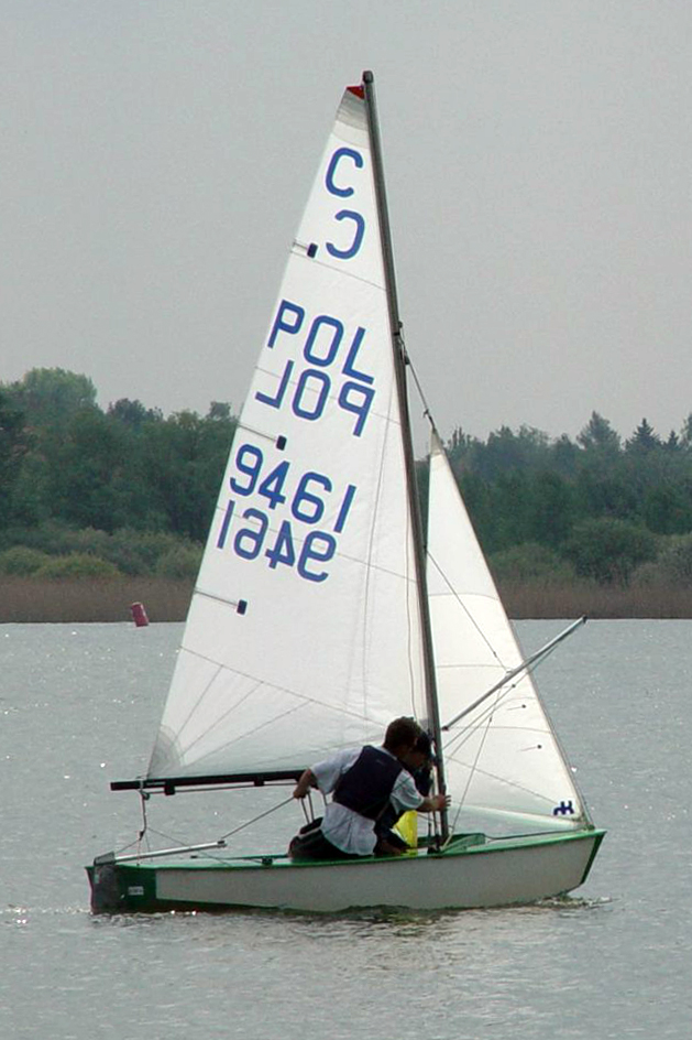 Cadet class dinghy POL 9461 sailing, Kiekrz lake (Poland)